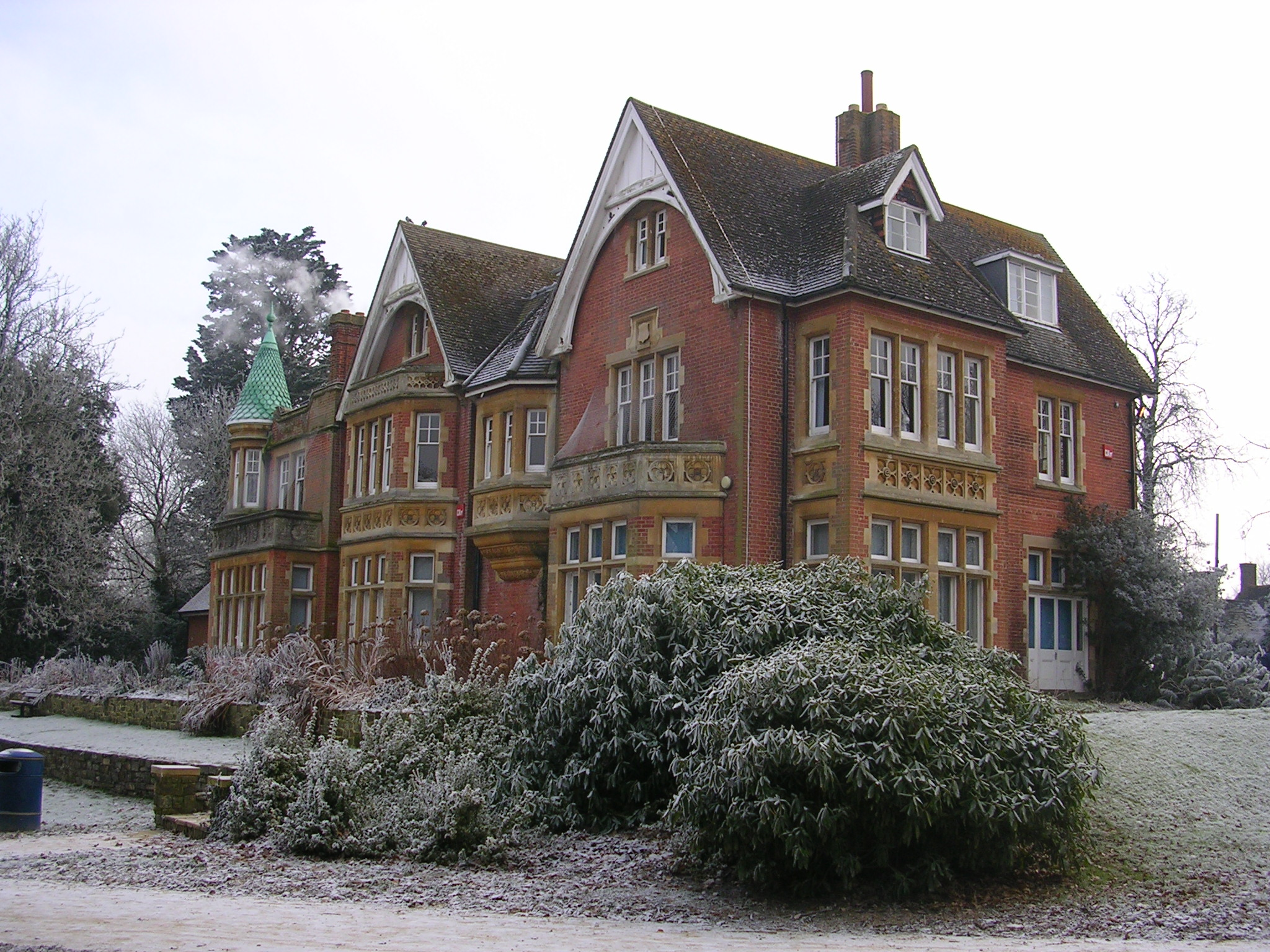 Goff's Park House, Crawley, West Sussex, England in January 2009.